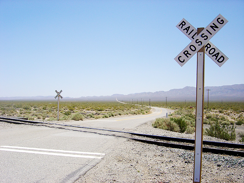 Railroad crossing at the intersection of Redrock Randsburg Road and the Southern Pacific Railroad, in the Mojave Desert near Garlock, California.